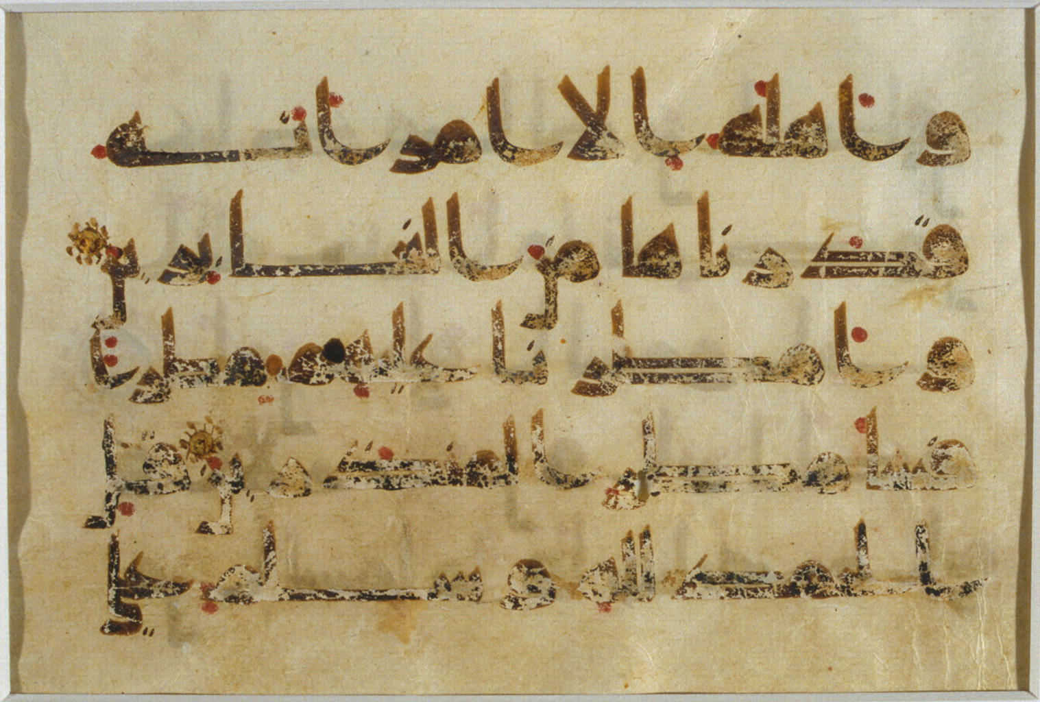 Calligraphic fragment with text executed in a Kufic script. It includes verses 57-59 of the 27th chapter of the Qur'an entitled al-Naml (The Ants).